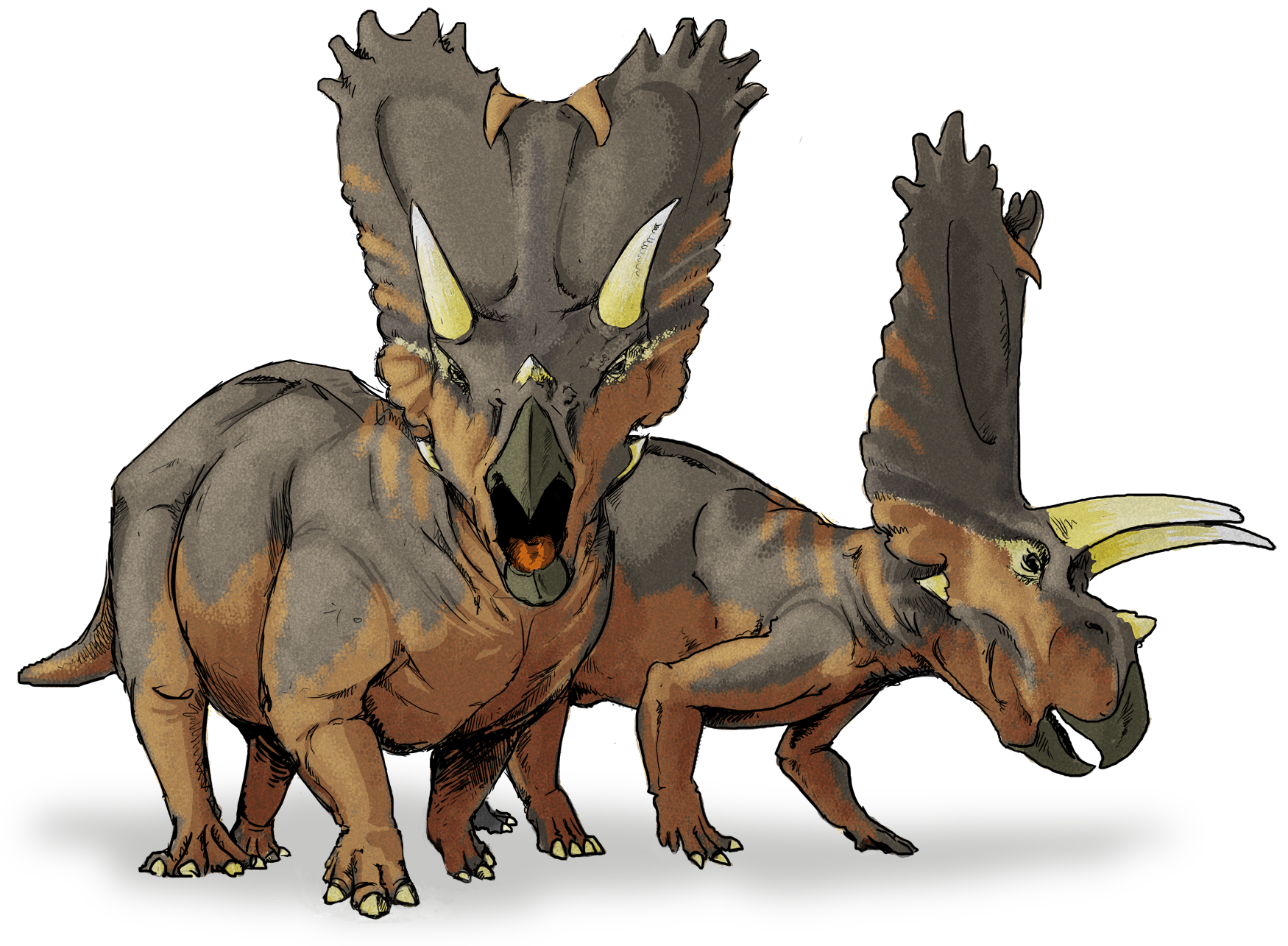 Life restoration of ceratopsid specimen OMNH 10165, originally classified as Pentaceratops, but considered since 2011 Titanoceratops ouranos, a separate genus ( (1 June 2011). "Titanoceratops ouranos, a giant horned dinosaur from the late Campanian of New Mexico". Cretaceous Research 32 (3): 264–276. ISSN 0195-6671.).